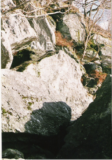 Rob Roy's Cave. Near Inversnaid on the eastern shore of Loch Lomond. It's hard to get to; either use the foot ferry, or take the long, but beautiful single track road from Aberfoyle. From the hotel it's about a half mile walk and then scramble amongst the large boulders. It would be impossible to find if the word "CAVE" hadn't been painted on the side.